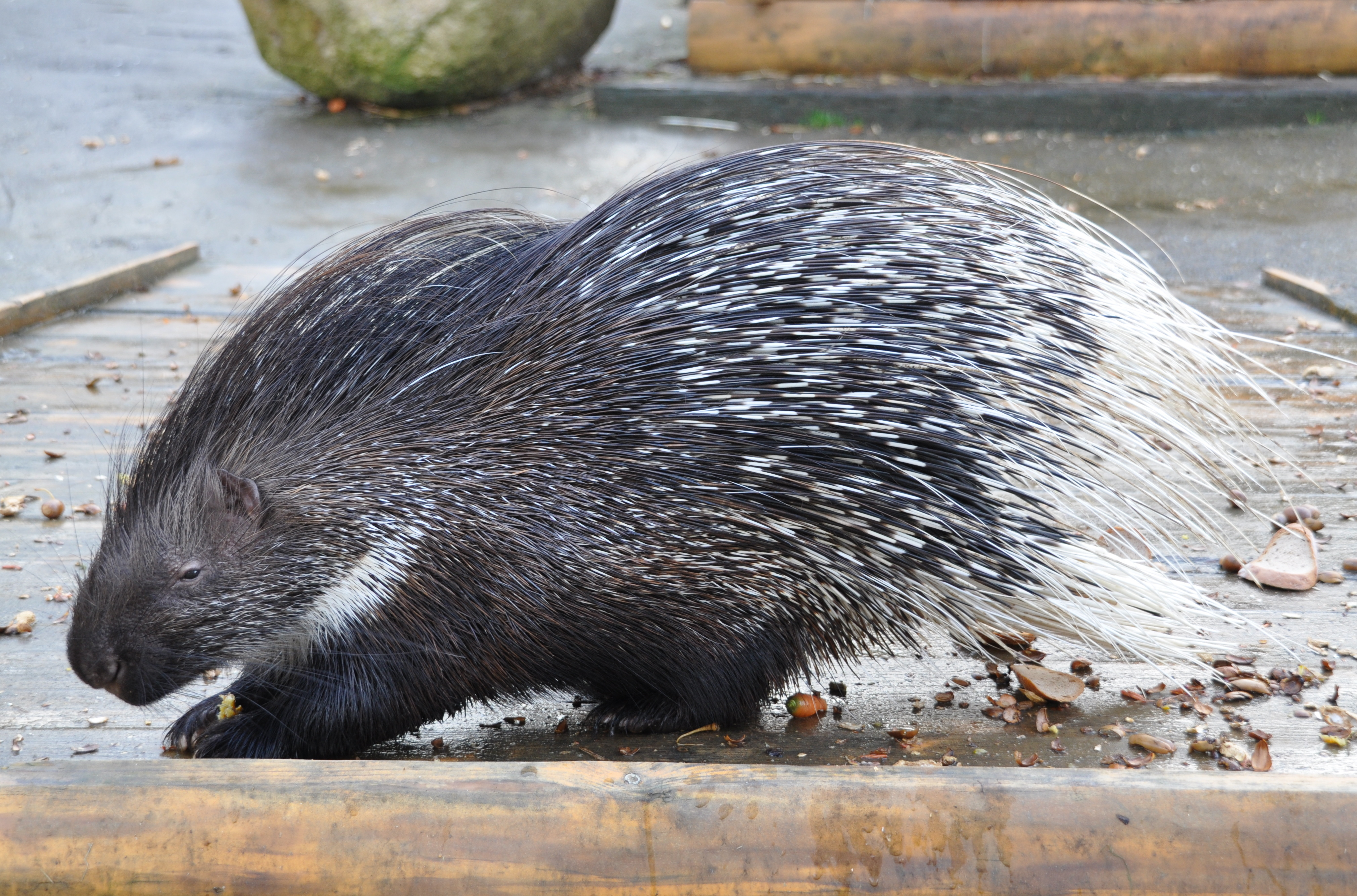 Crested Porcupine (Hystrix cristata) in the Lüneburg Heath wildlife park, Germany.